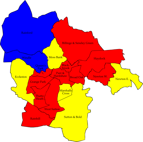 Map of St Helens, Merseyside, UK showing the results of the 2002 and 2003 local elections. Colours: Labour Liberal Democrat Conservative